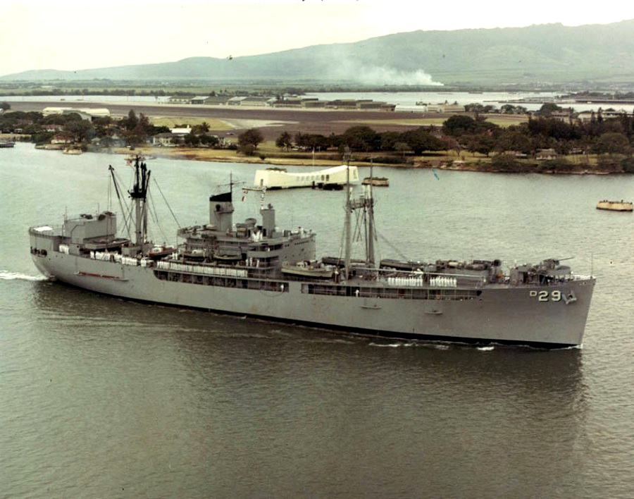 The U.S. Navy destroyer tender USS Isle Royale (AD-29) in the Pearl Harbor channel passing the Arizona memorial in June 1963.